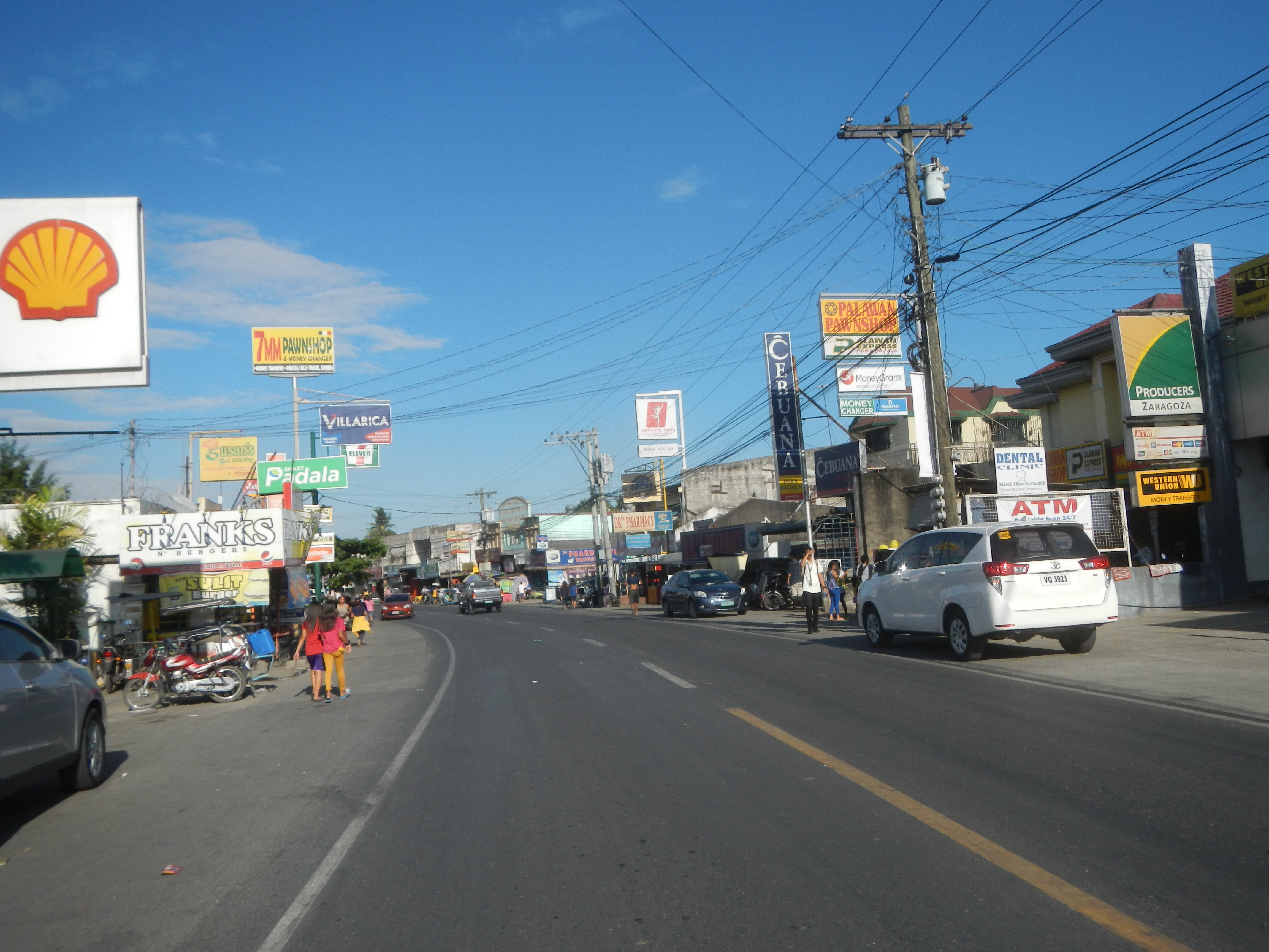 Santa Rosa, Nueva Ecija-Tarlac Road (Zaragoza, Nueva Ecija section) Santa Rosa, Nueva Ecija-Tarlac Road (Santa Rosa, Nueva Ecija section) Santa Rosa-Tarlac Road 15°29'6"N 120°38'5"E Zaragoza - Santa Rosa, Nueva Ecija Arterial Road Santa Rosa to Zaragoza Nueva Ecija - starting from Cojuanco (Poblacion) - Rizal (Poblacion), Santa Rosa, Nueva Ecija Junction - Intersection, Cagayan Valley Road, Maharlika Highway Barangays Rizal (Poblacion) 15°24'57"N 120°57'36"E and Barangay 15°25'19"N 120°57'24"E Cojuanco (Poblacion), corner Rizal Street 15°29'23"N 120°57'49"E Santa Rosa, Nueva Ecija connected by the Santa Rosa Bridge (ID No. BO1334LZ Station K0107+192 Length 542 meters beside Barangays La Fuente, Santa Rosa, Nueva Ecija towards Zaragoza, Nueva Ecija Zaragoza - Santa Rosa, Nueva Ecija Arterial Road towards La Paz and Tarlac City, Tarlac; accessed from Pan-Philippine Highway (Cagayan Valley Road, San Leonardo and Santa Rosa, Nueva Ecija section) to Maharlika Highway (Cagayan Valley Road, Cabanatuan City) of the Pan-Philippine Highway, also known as the Maharlika "Nobility/freeman" Highway in Cagayan Valley Road (Note: Judge Florentino Floro, the owner, to repeat, Donor Florentino Floro of all these photos hereby donate gratuitously, freely and unconditionally all these photos to and for Wikimedia Commons, exclusively, for public use of the public domain, and again without any condition whatsoever).